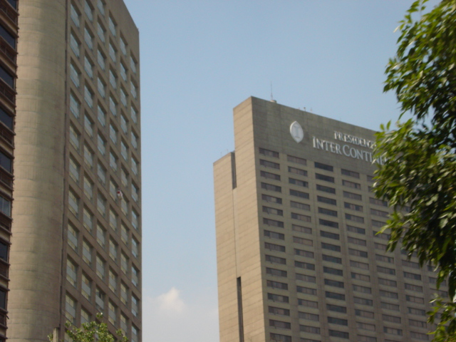 Hotel PresidenteIntercontinental and Hotel Nikko Mexico City.